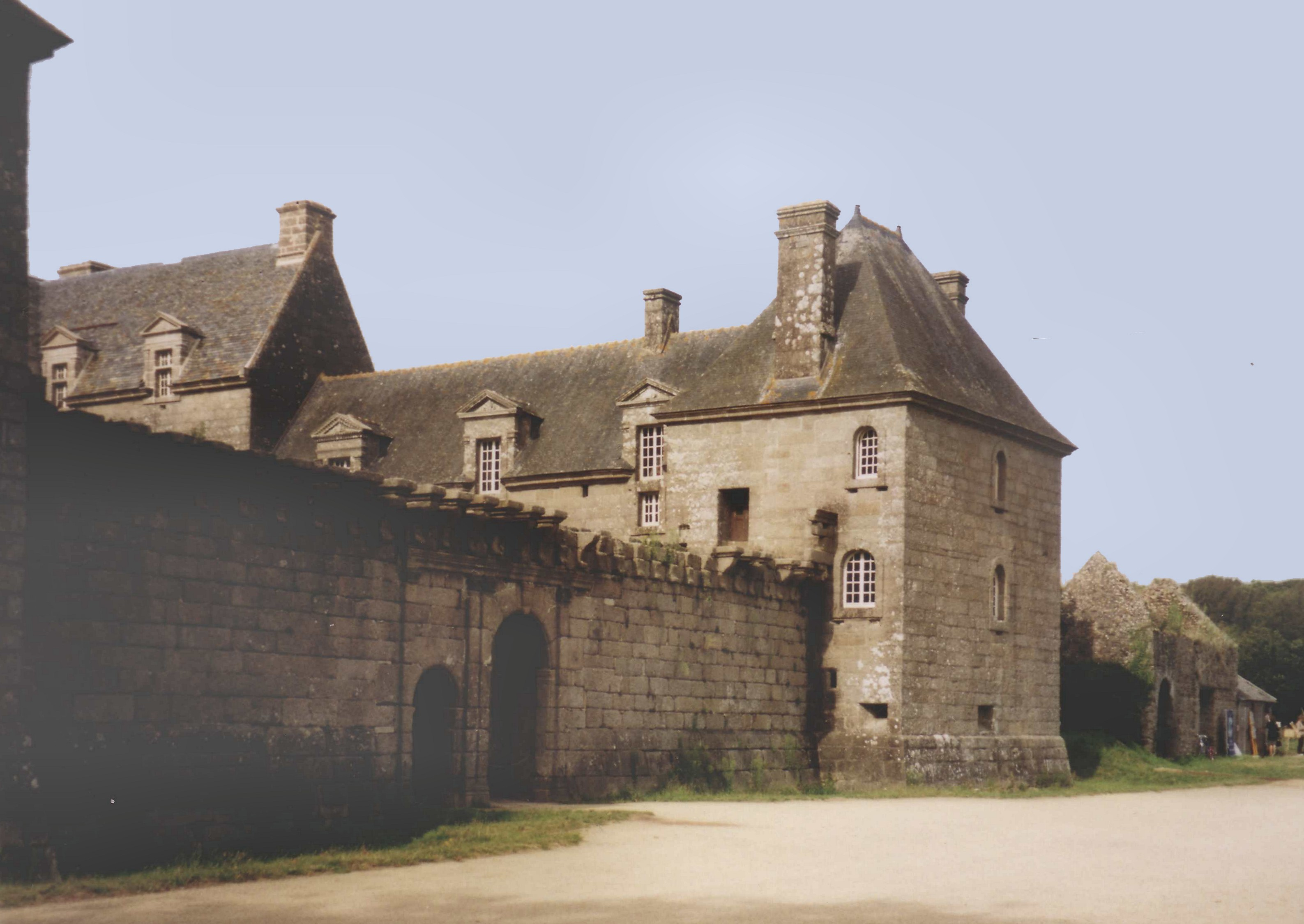 castle Kergroadès from the 17th s., near Brélès, Finistère, Bretagne, France